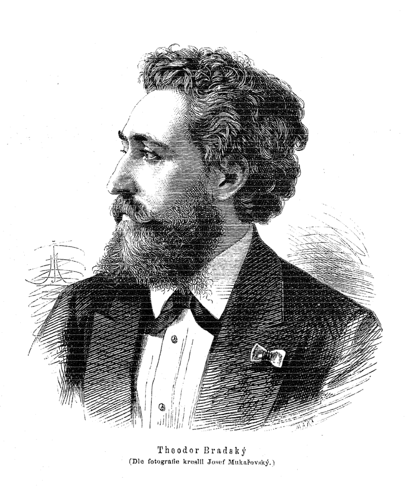 Portrait of Theodor Václav Bradský (also Wenzel Theodor Bradsky, 1833-1881), Czech composer mainly active in Germany.